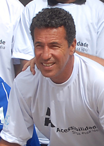 Antonio de Oliveira Filho, better known as Careca, was a Brazilian football player.